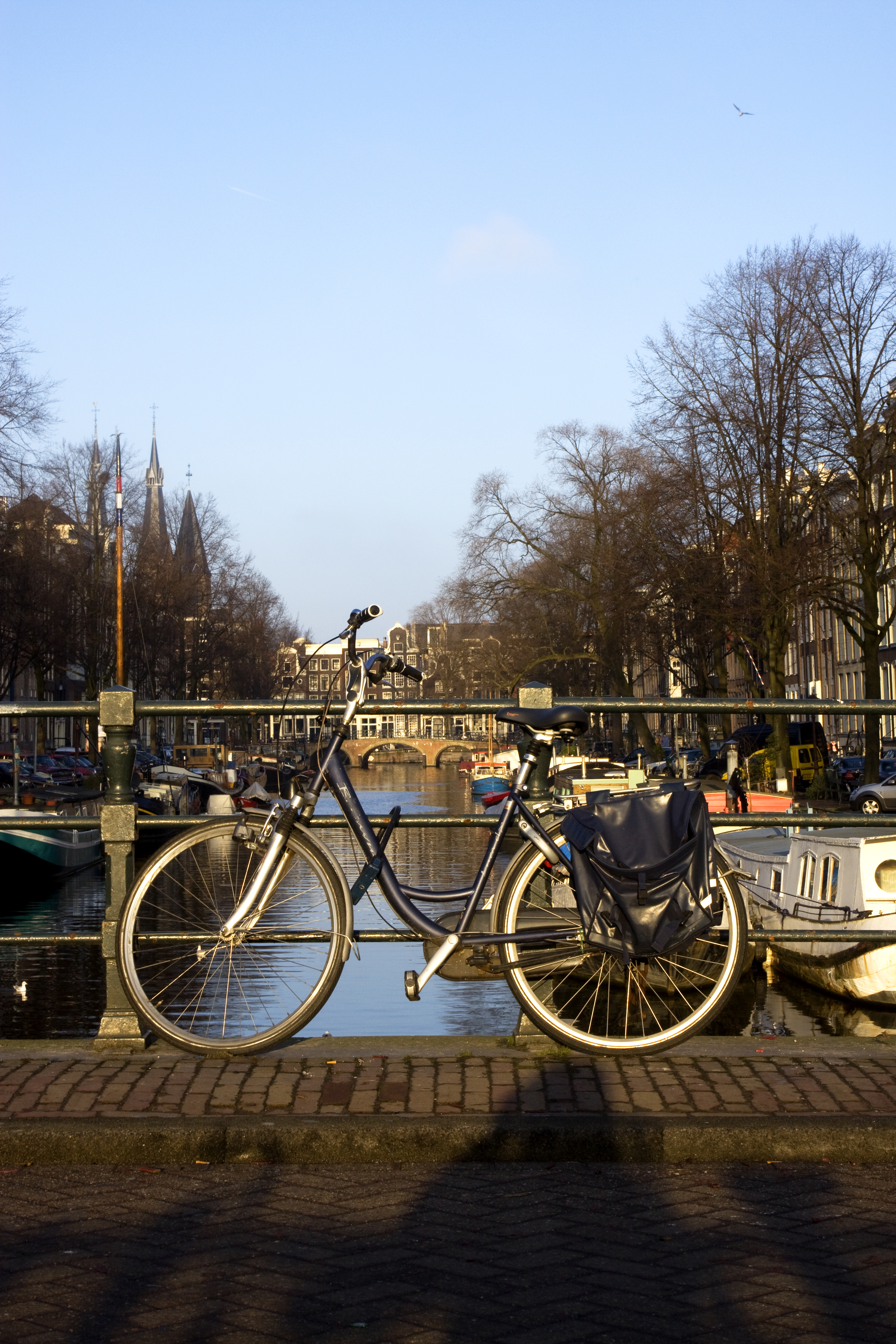 A bicycle parked on a bridge over a canal in Amsterdam, The Netherlands.